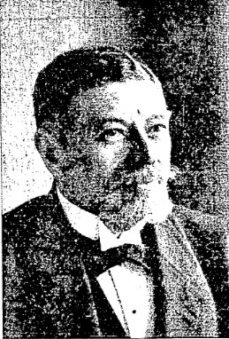 Adolf Weisblat or Weisblatt, an engineer